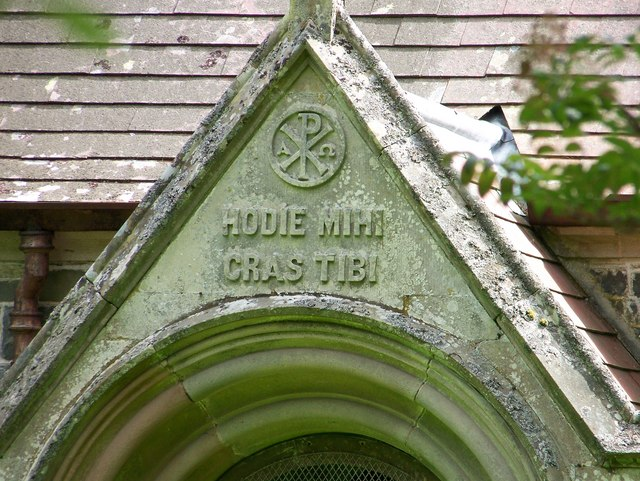 Hodie mihi, cras tibi The inscription above the door of the chapel at Dawyck - translates to "It is my lot today, yours to-morrow" - or, as puts it, "today me, tomorrow you" or "here today, gone tomorrow". The symbol above the inscription is known as "Chi Rho" - the first two letters of the Greek spelling of "Christ" with the letters "alpha" and "omega" on either side - the first and last letters of the Greek alphabet, referring to Christ as "the first and the last" - see Chi_Rho (my thanks to another Geograph member for drawing my attention to this).